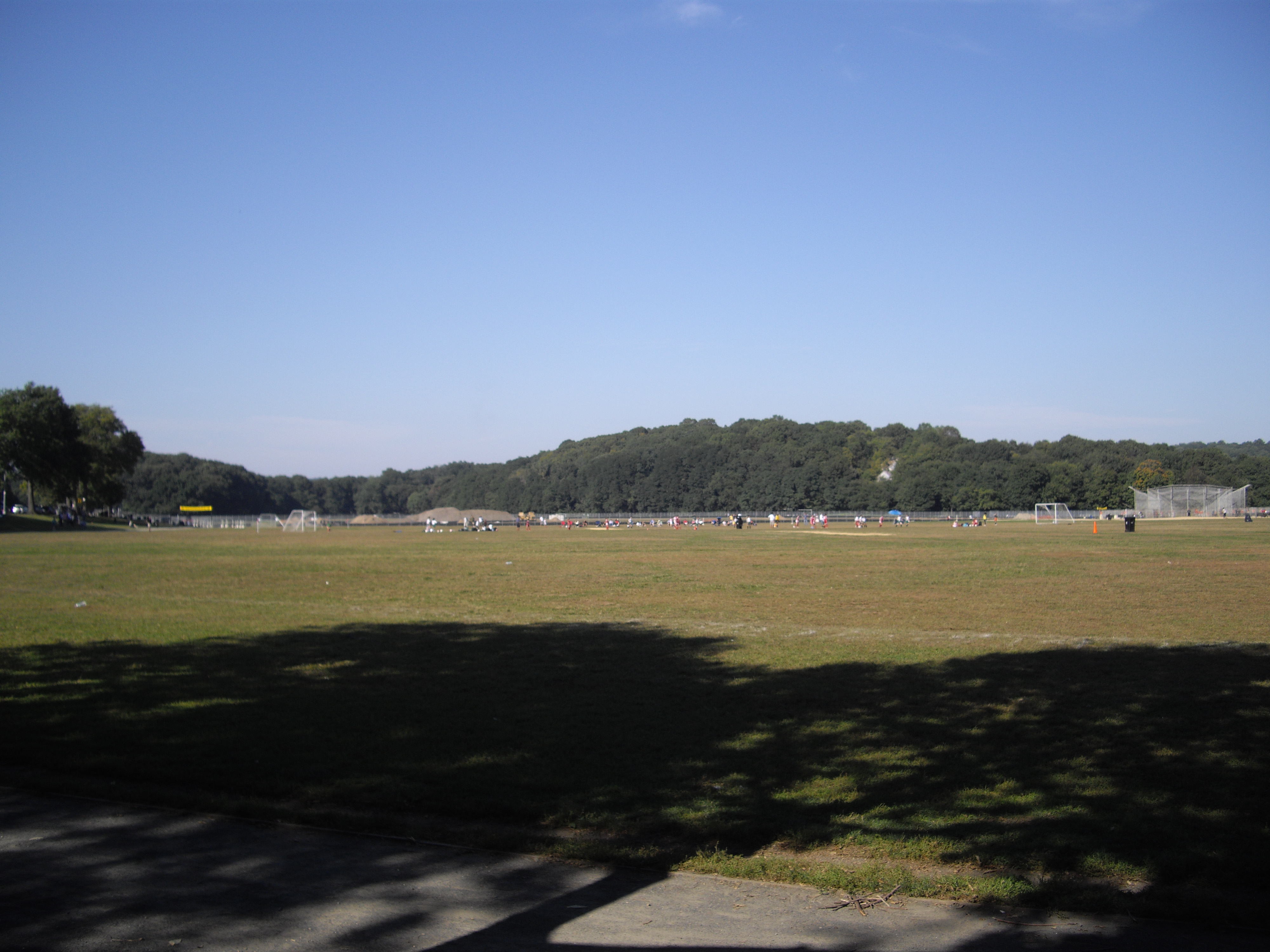 Looking north in The Parade Grounds, Van Cortland Park in the Bronx on a sunny late afternoon